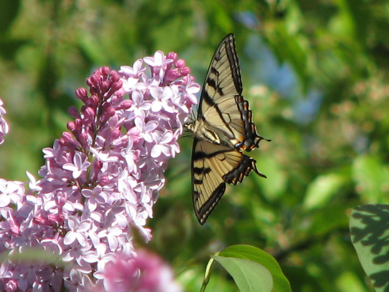 Canadian Tiger Swallowtail (Papilio canadensis) taken near Palmer Rapids, Ontario